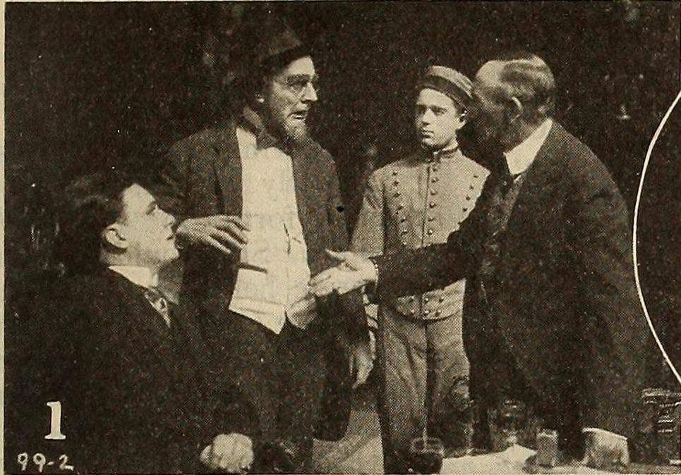 A still from The Actor and the Rube. Shown: Boyd Marshall, Edward N. Hoyt, Leo Post and Riley Chamberlin.